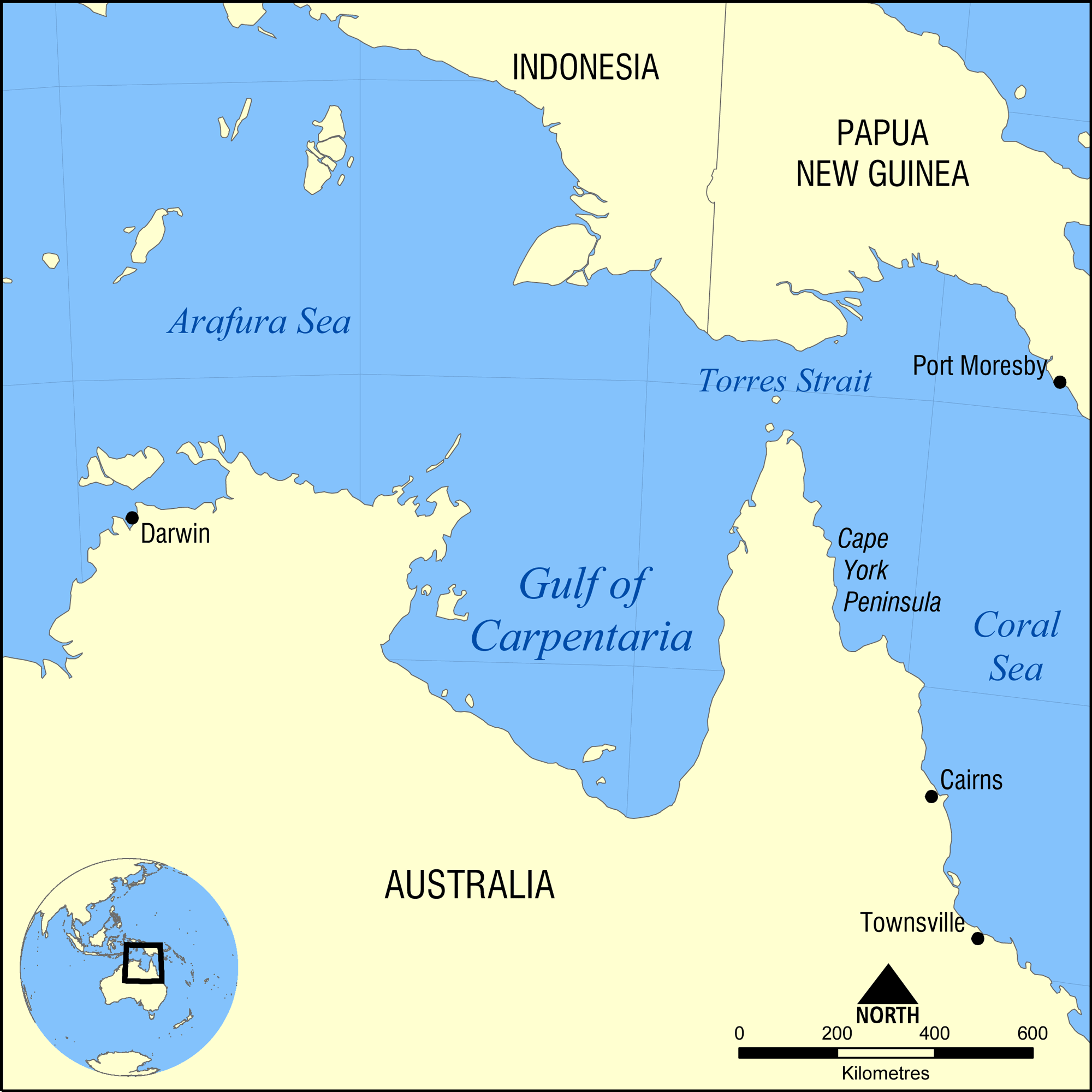 Map showing the location of the Gulf of Carpentaria in northern Australia. Nearby bodies of water include the Arafura Sea and Coral Sea.